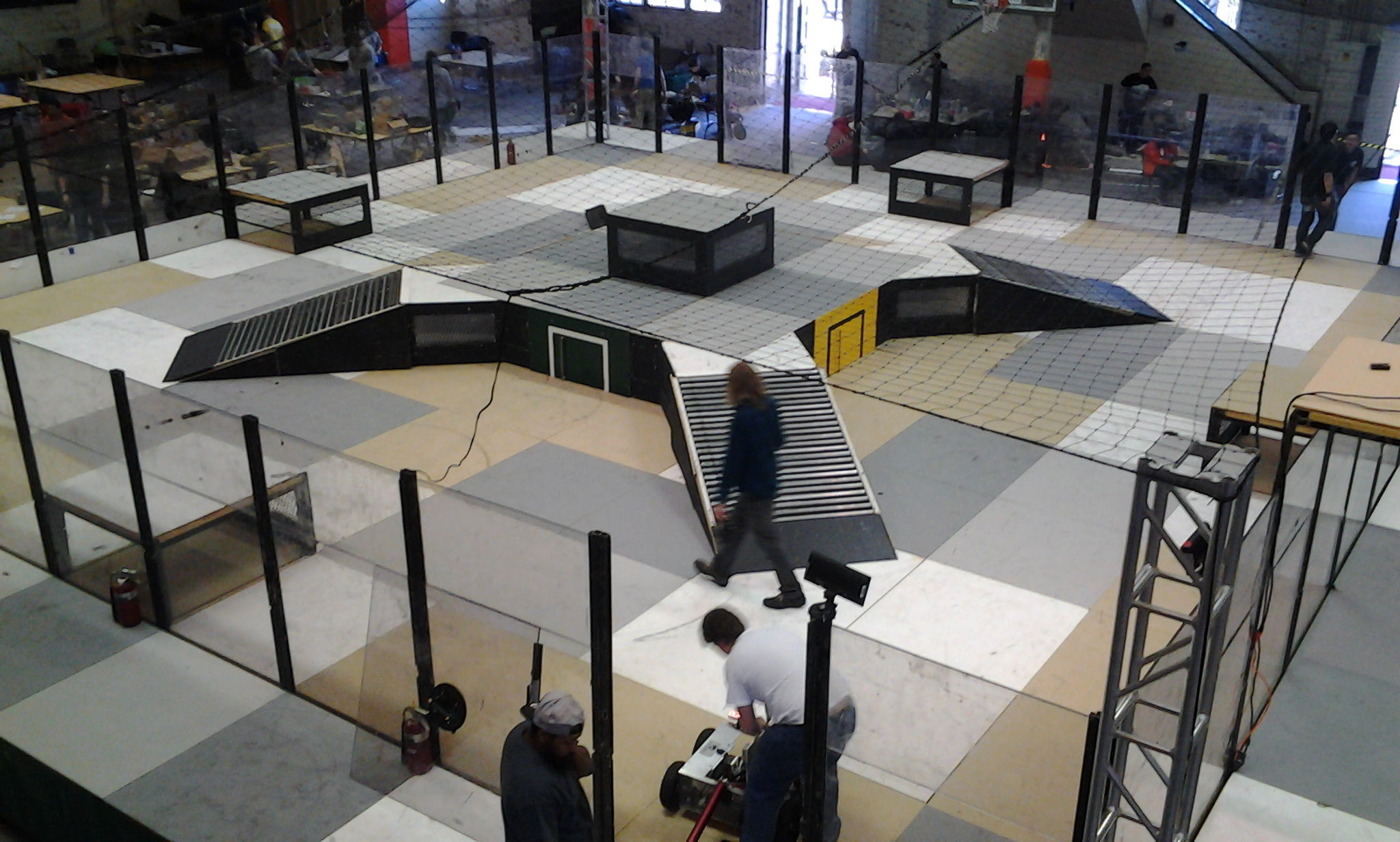 Overhead view of competition course for 2014 Jerry Sanders Creative Design Competition.